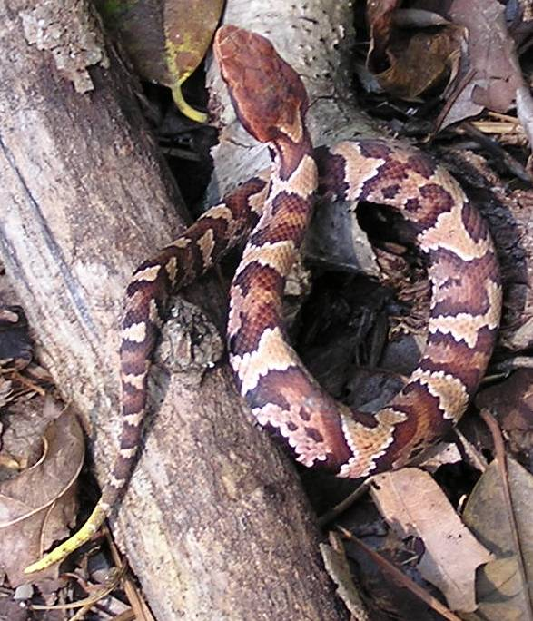 Neonate Eastern Cottonmouth: Note yellow tail tip